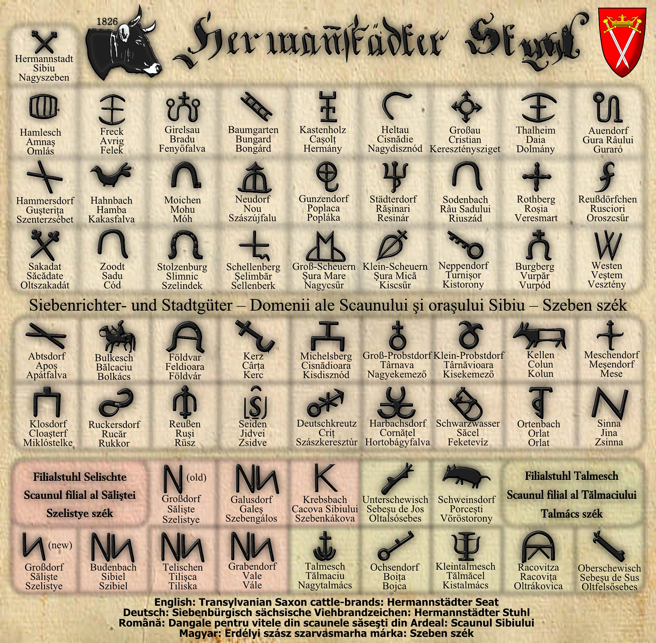 Cattle brands from Hermannstadt Seat, 1826